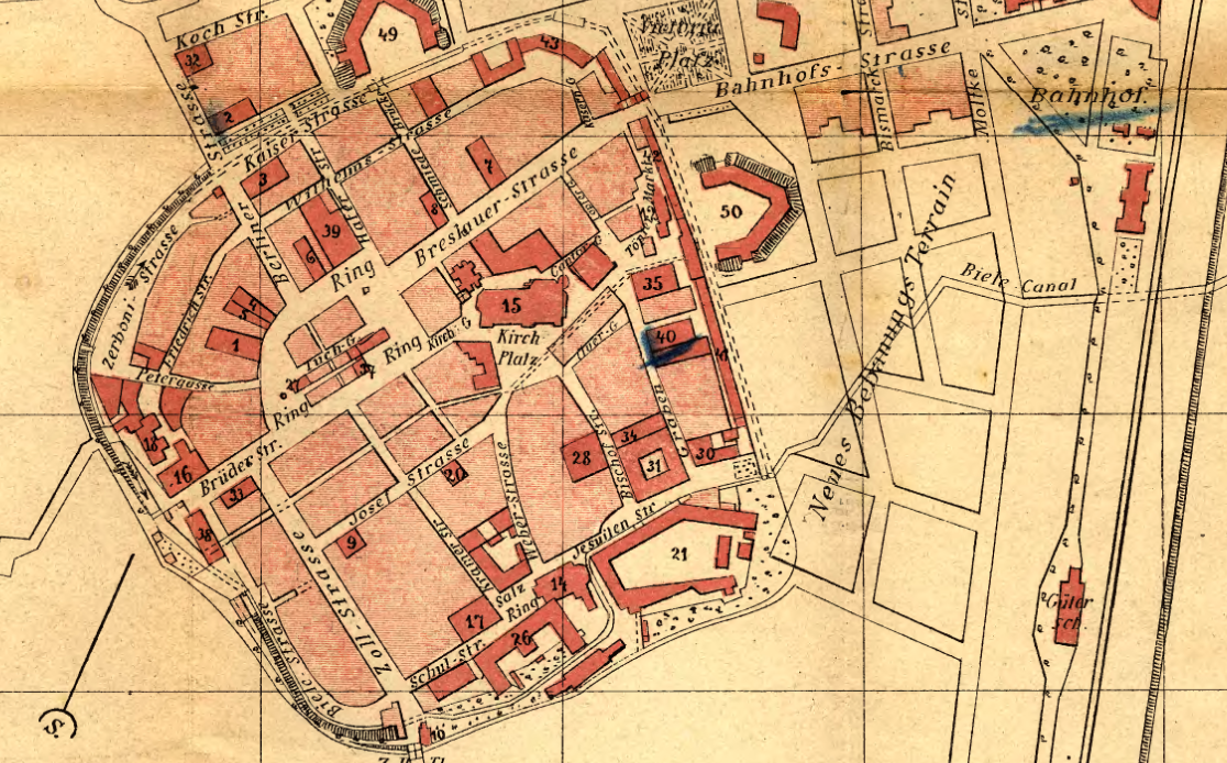 Map of the City of Neisse, Upper Silesia, Germany